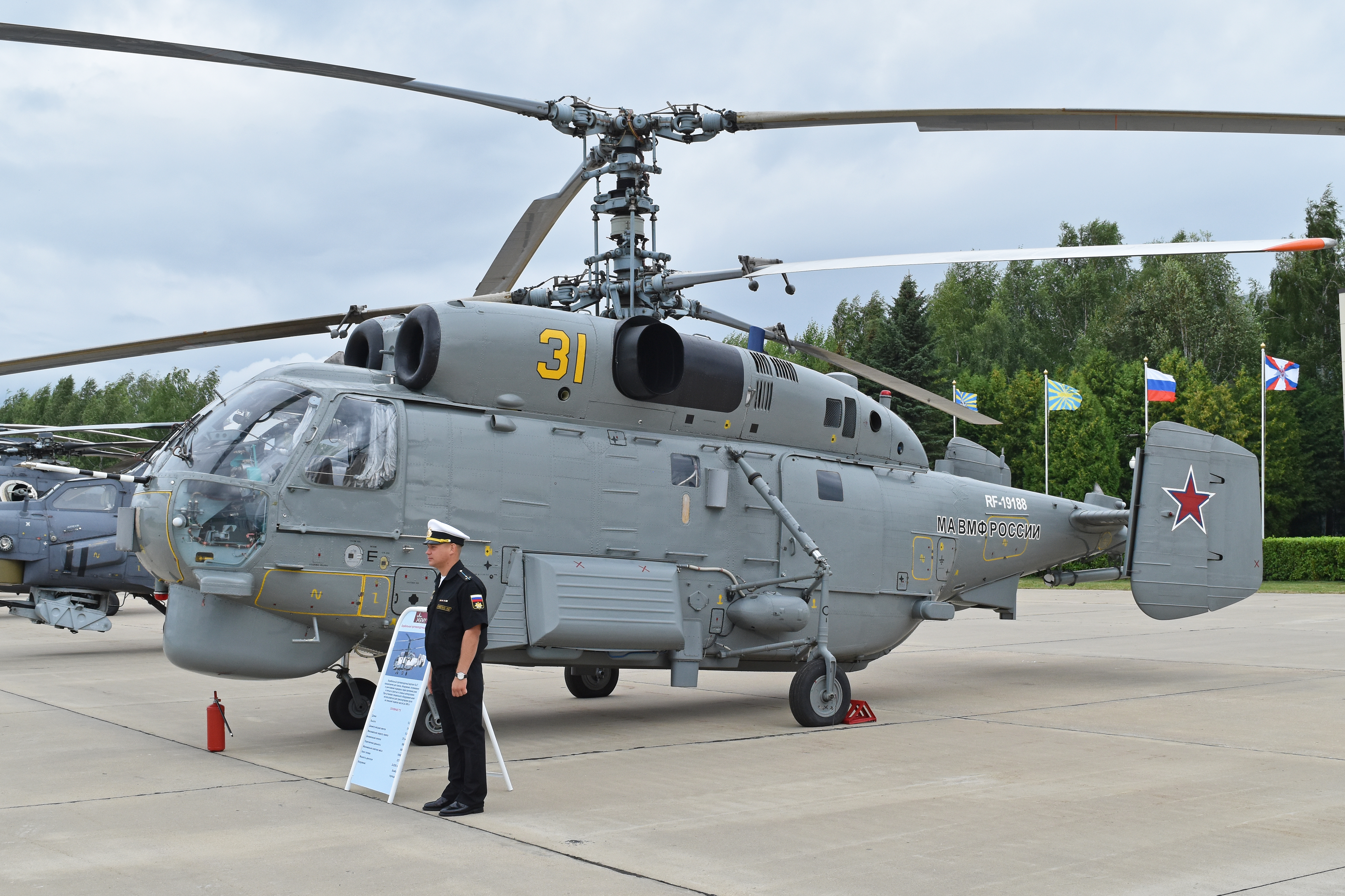 c/n unknown. NATO codename ‘Helix-A’ The ‘M‘ is the latest variant of the Ka-27 and is an upgraded and reworked Ka-27PL, the existing anti-submarine variant. Very few are in service as yet, with this one being reported as being operated by 859th Centre for Combat Application and Crew Training for Naval Aviation (TsBP I PLS MA VMF) Russian Navy, based at Yeysk. On static display at the Aviation cluster of the ARMY 2017 event. Kubinka Airbase, Moscow Oblast, Russia. 24th August 2017